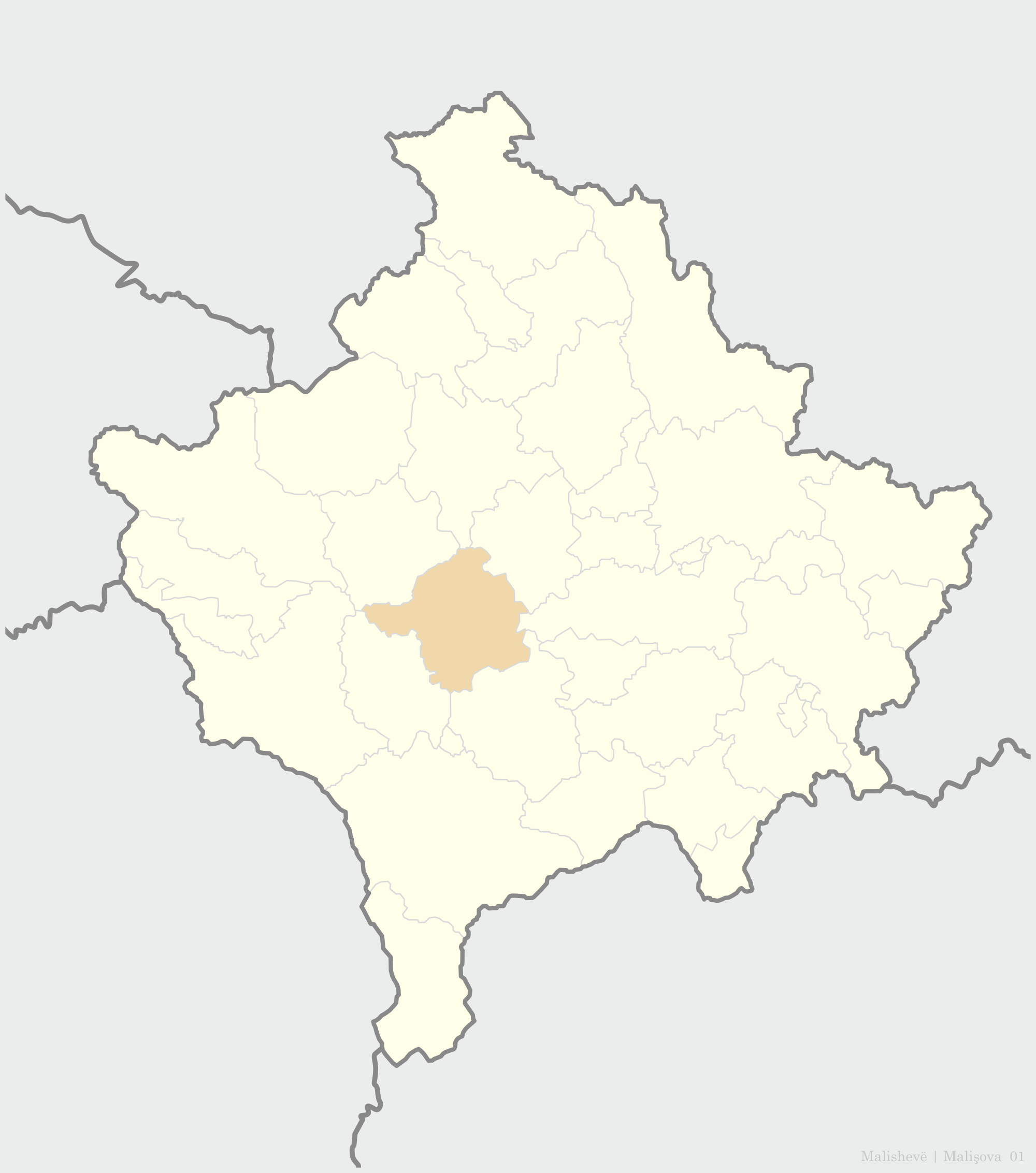 Municipality of Malisevo map